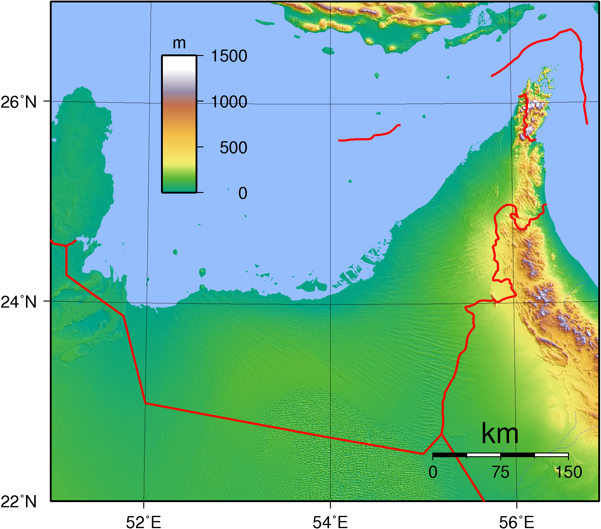 Topographic map of United Arab Emirates. Created with GMT from SRTM data.